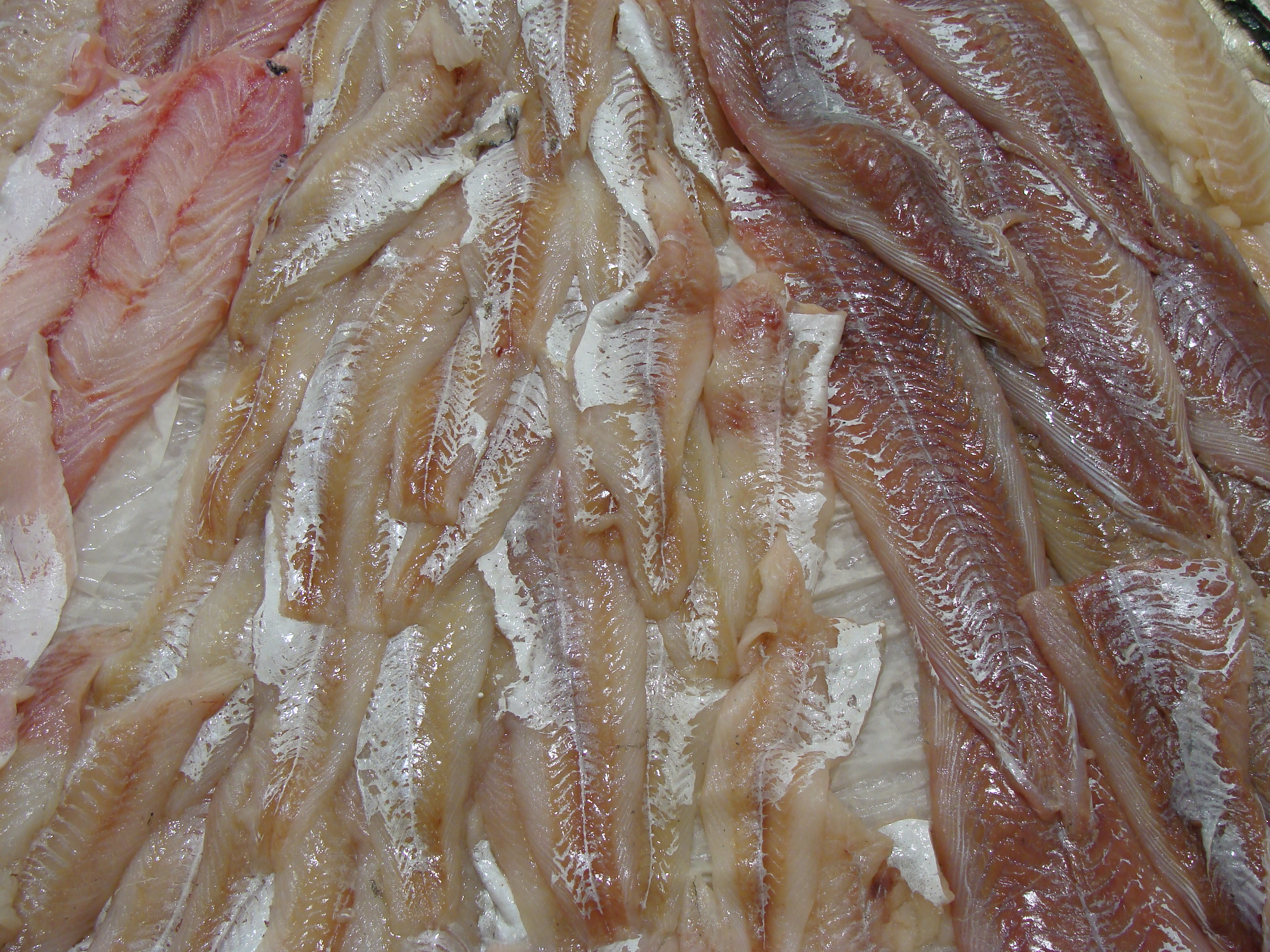 fish filets